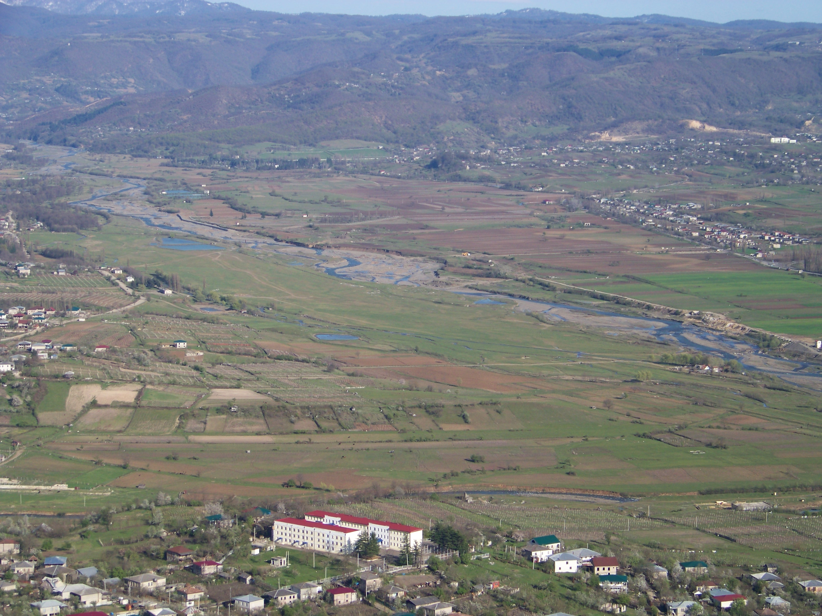 River Kvirila at Sachkhere, Georgia.